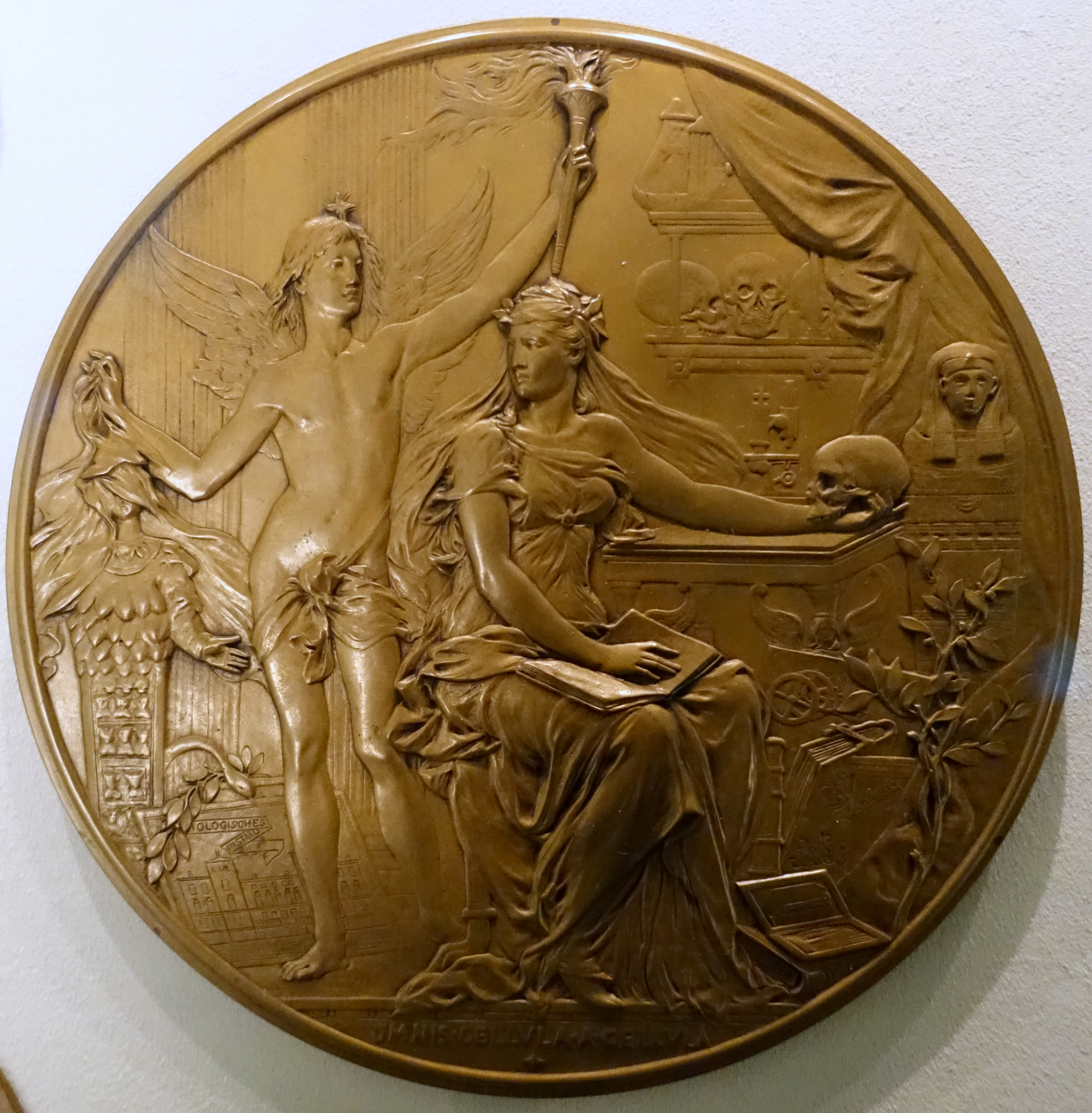 Exhibit in the Bode-Museum, Berlin, Germany. This work is in the public domain because the artist died more than 70 years ago.